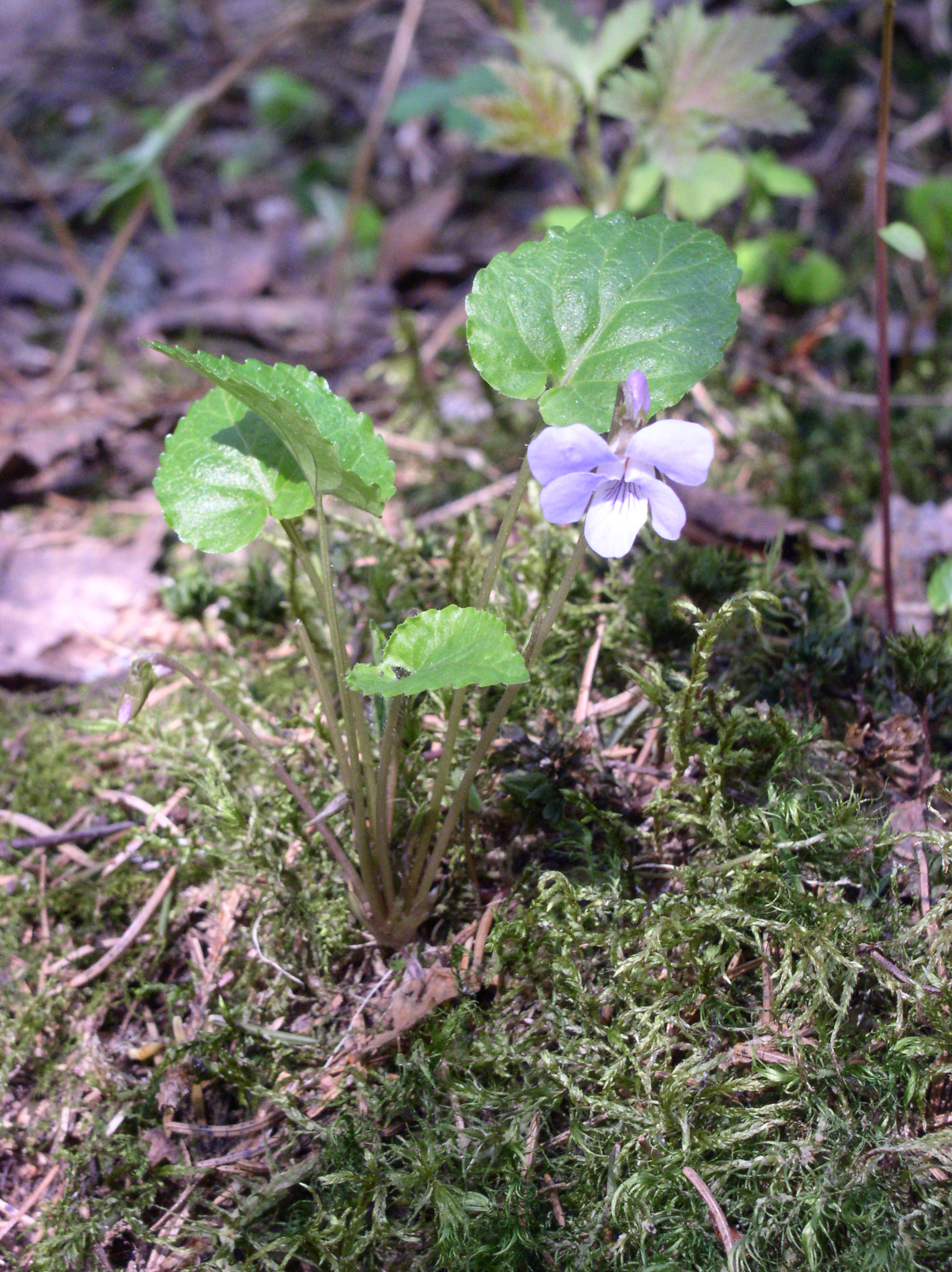 Viola selkirkii plant in Savonlinna, Finland.